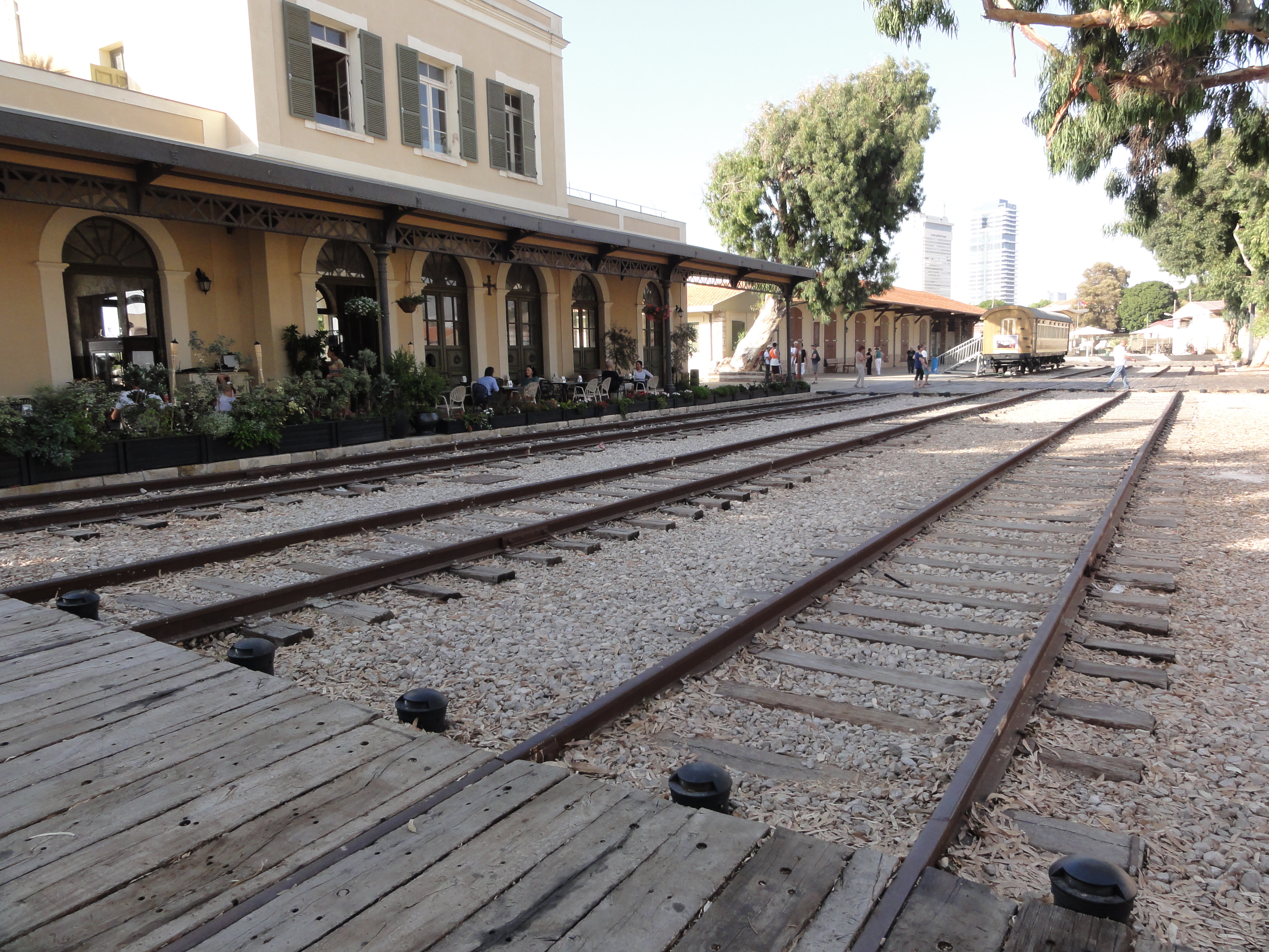 Former Jaffa train station, Israel.